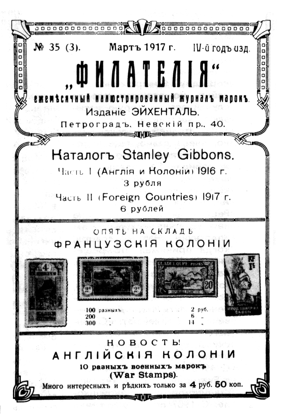 Russian philatelic magazine "Filatelia". - № 35. - 1917